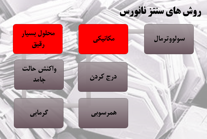 سنتز نانورس